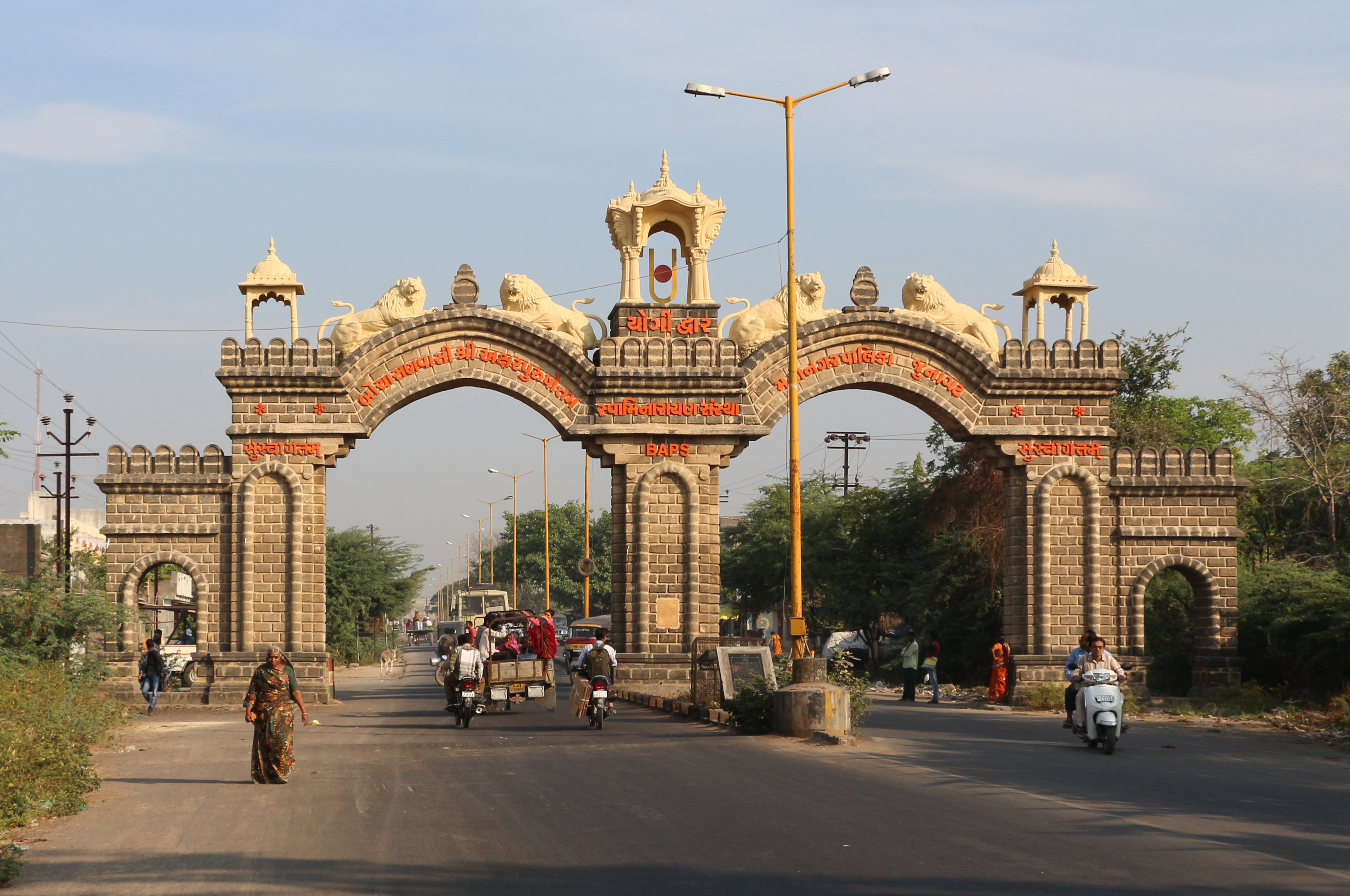 Gate of the city of Junagadh, India